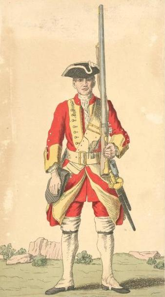 Soldier of the 29th regiment (1742)